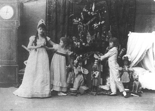 Photo of Stanislava Belinskaya as Clara (left), an unknown performer (center), & Vassily Stulkolin as Fritz (right) in the Imperial Ballet's original production of the Petipa/Ivanov/Tchaikovsky ballet "The Nutcracker".